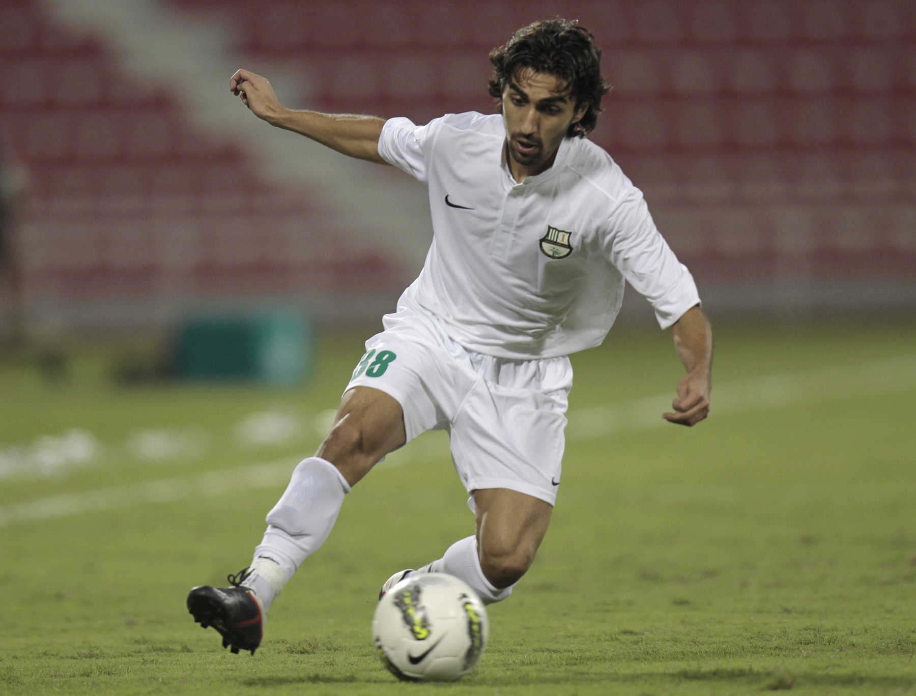 Al Ahli's Ali Nasser runs with the ball during a Qatar Stars League match.